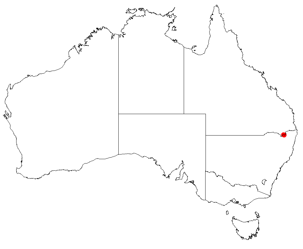 Macrozamia occidua occurrence data downloaded from Australasian Virtual Herbarium using